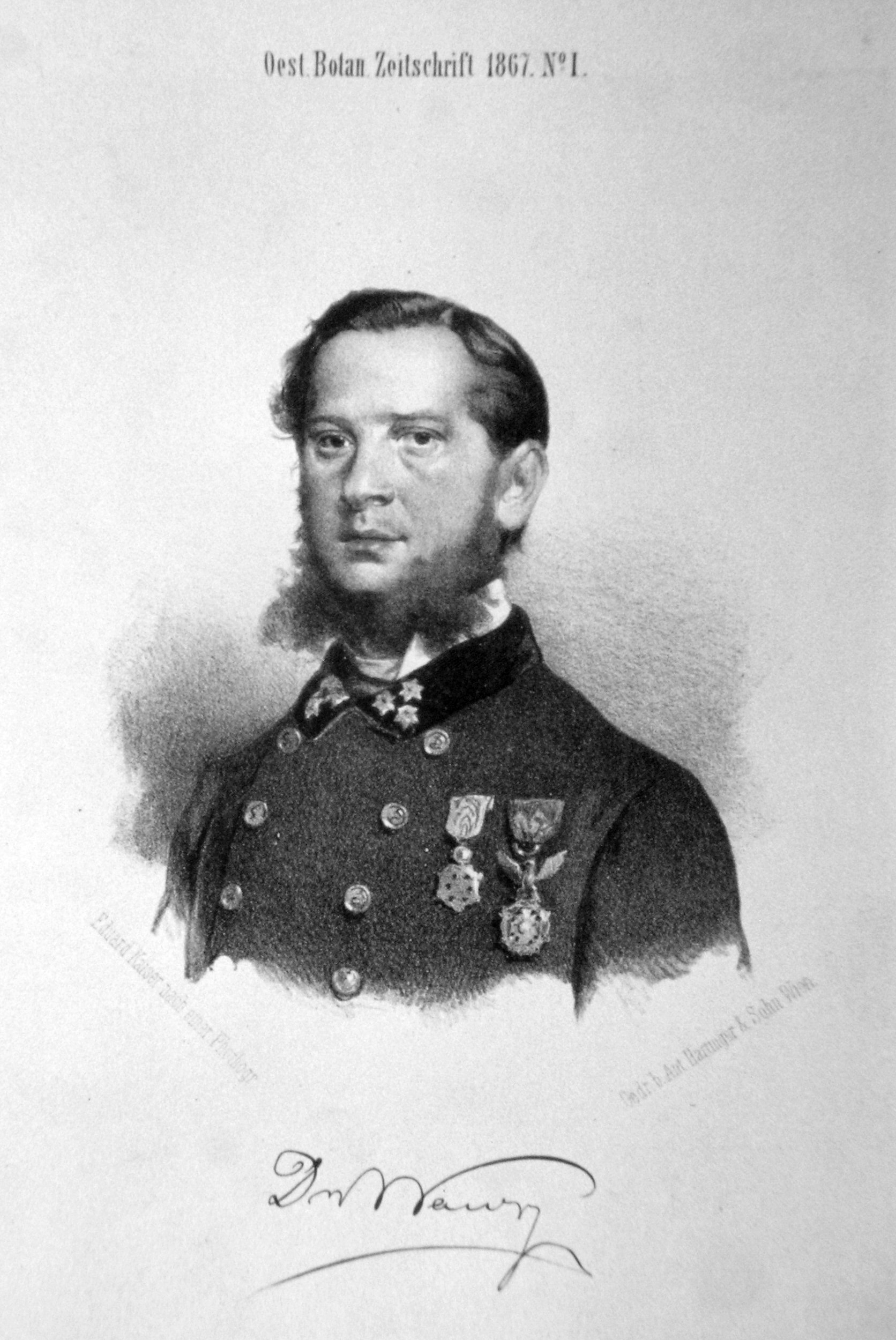 Heinrich Wawra von Fernsee (1831-1887) Austrian Botanist, Lithograph by Eduard Kaiser, 1867